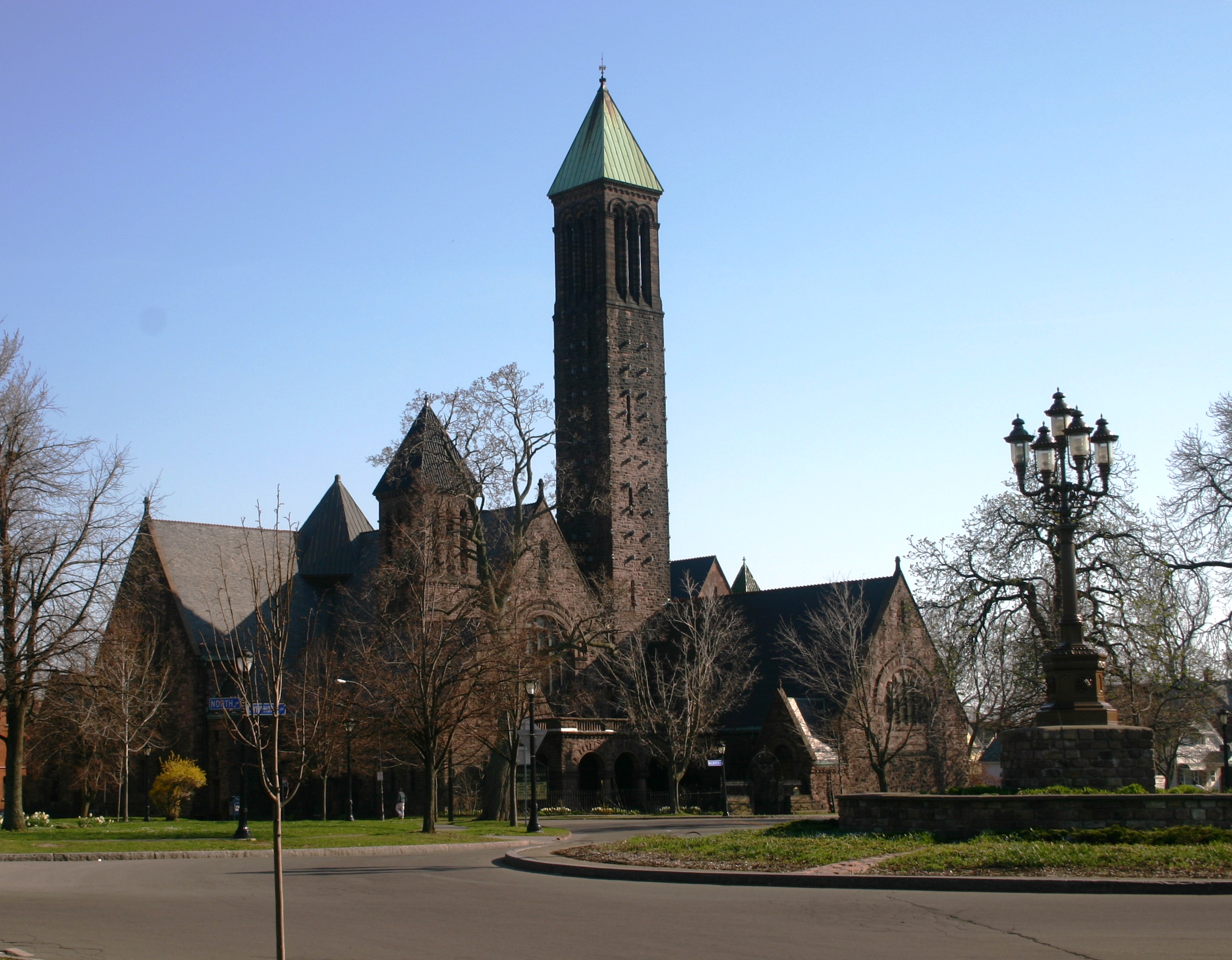 Contemporary Photograph of the First Presbyterian Church on Buffalo, NY, Designated Use: Wikipedia